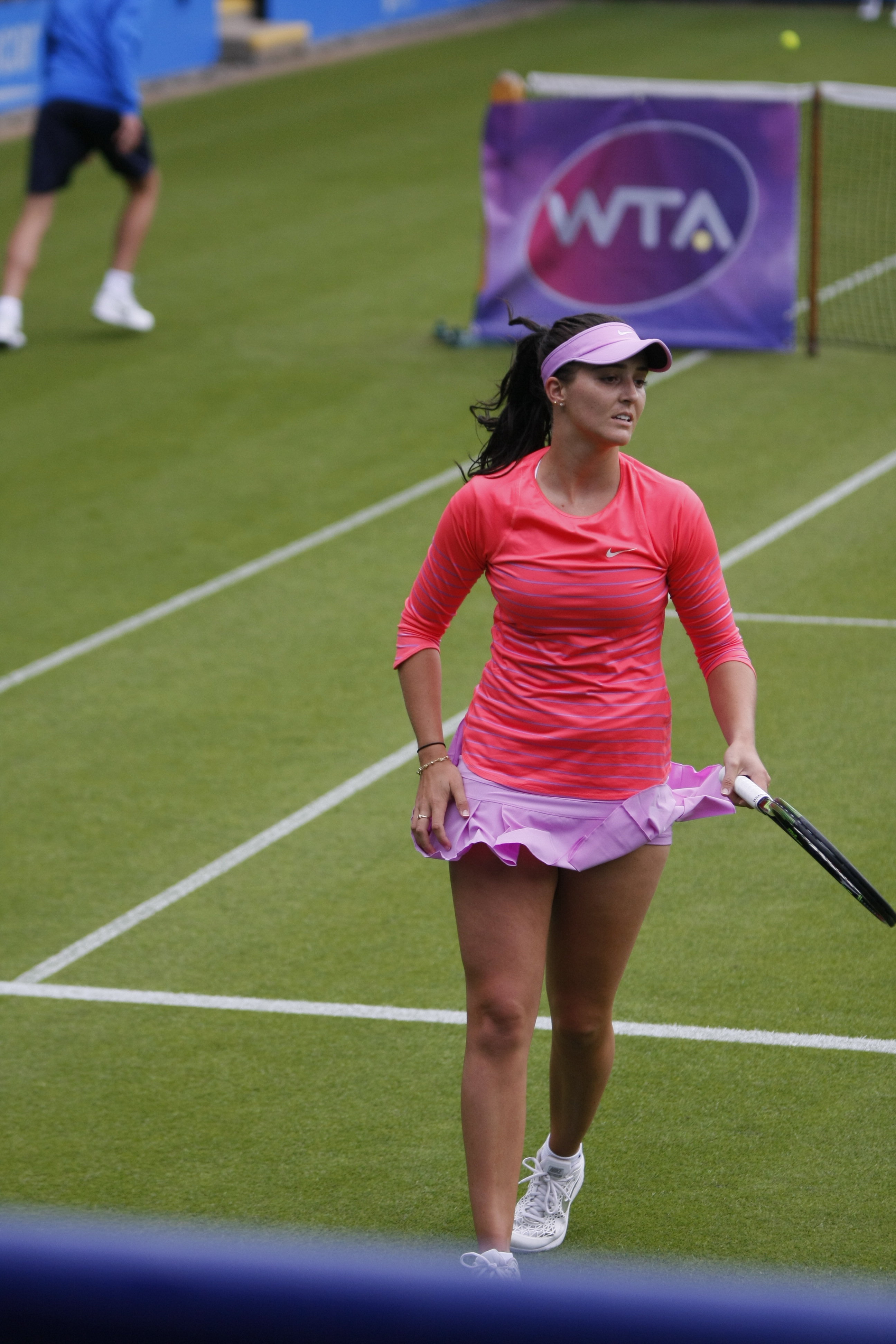 Aegon International Tennis, Devonshire Park, Eastbourne June 2015